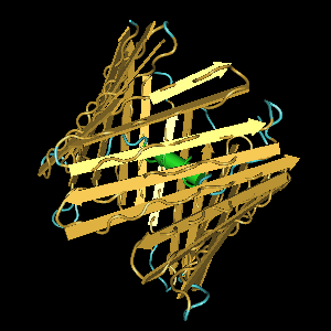 Crystal structure of The Human Voltage-Dependent Anion Channel.